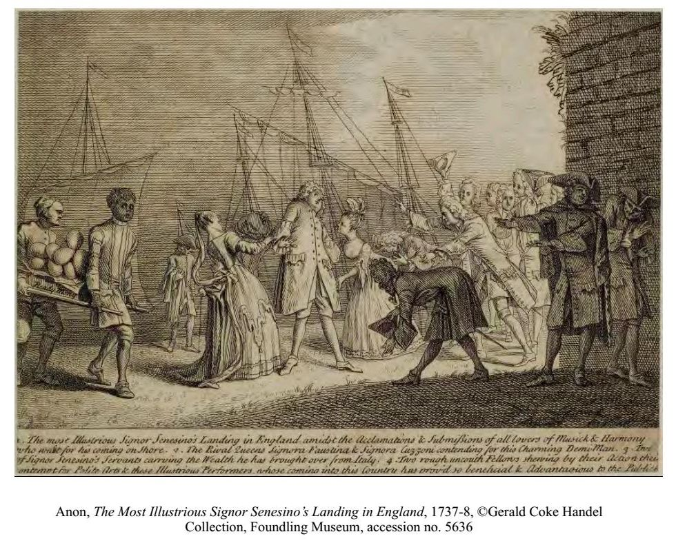 Senesino's arrival in London received by the two rival queens of Handel's opera academy - Francesca Cuzzoni and Faustina Bordoni (from 1730 Faustina Hasse) Original legend: Title: The most illustrious Signor Senesino's landing in England Title Page Transcript: [...] / Ready Mony / [...] / 1. The most Illustrious Signor Senesino's Landing in England amidst the Acclamations & Submissions of all lovers of Musick & Harmony / who wait for his coming on Shore. 2. The Rival Queens Signora Faustina & Signora Cuzzoni contending for this Charming Demi-Man. 3. Two / of Signor Senesino's Servants carrying the Wealth he has brought over from Italy. 4. Two uncouth Fellows shewing by their Action their / contempt for Polite Arts & these Illustrious Performers whose coming into ths Country has prov'd so beneficial & Advantagious to the Publick. Comments: Physical Description: 187 x 260mm Notes: Line engraving. Senesino is depicted landing on shore with a ship and a small sailing vessel in the distance. Either side of him are Faustina and Cuzzoni; two servants (one African) to his right unload his 'wealth' while adoring crowds of the British upper classes welcome him by bowing at his presence. In the foreground two disgruntled characters move away from the scene, possibly representing theatre owners who will be out of pocket considering Senesino's reputedly large fees. Senesino was engaged to sing for the Royal Academy of Music who had offered a contract of 3,000 guineas for the season: his first performance was on 19th November 1720 in Bononcini's Astarto. He performed in every season until the end of the first Academy in 1728. Cuzzoni's London début was on 12th January 1723 and Bordoni's in 1726. Another version of this scene is found in Bickham's Musical Entertainer (p.38).